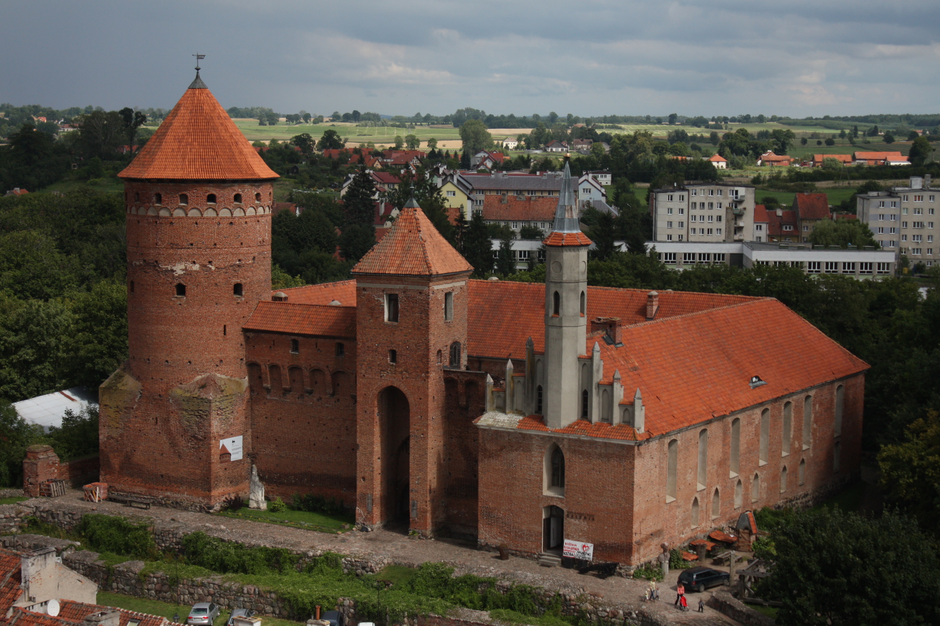 This photo of Warmian-Masurian Voivodeship was taken during Wikiexpedition 2012 set up by Wikimedia Polska Association. You can see all photographs in category Wikiekspedycja 2012. The making of this document was supported by Wikimedia Polska.